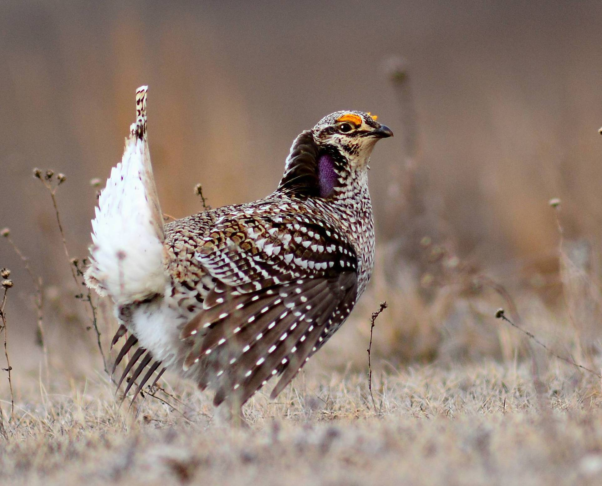 In the spring, sharp-tailed grouse form mating grounds, or leks, where they congregate to compete for territories and perform mating displays for visiting females. This crowded scene leads to fighting among the males as they attempt to outcompete one another and win the affections of the onlooking females. Photo Credit: Rick Bohn